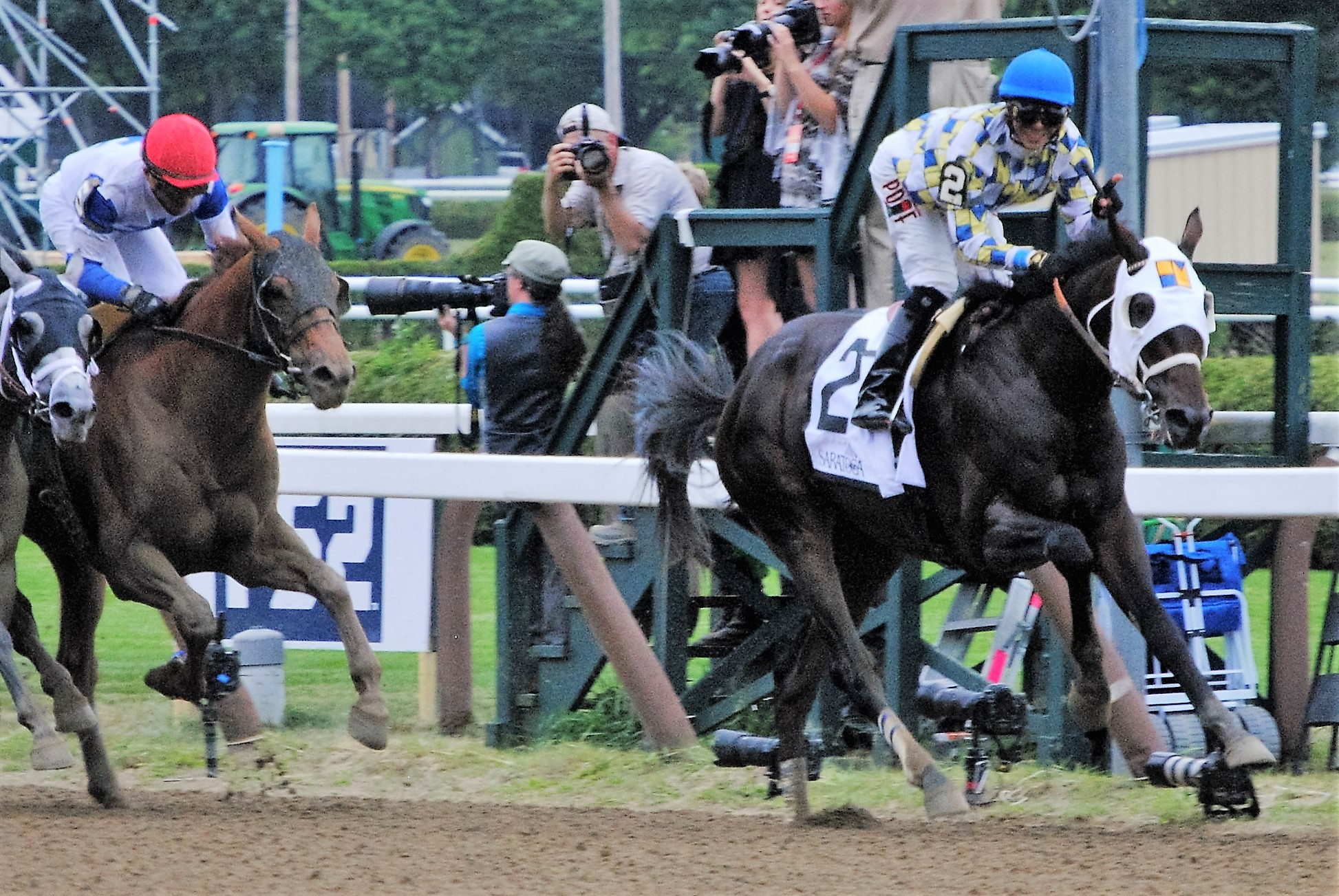 Laoban, ridden by Jose Ortiz, wins the 2016 Jim Dandy Stakes at Saratoga